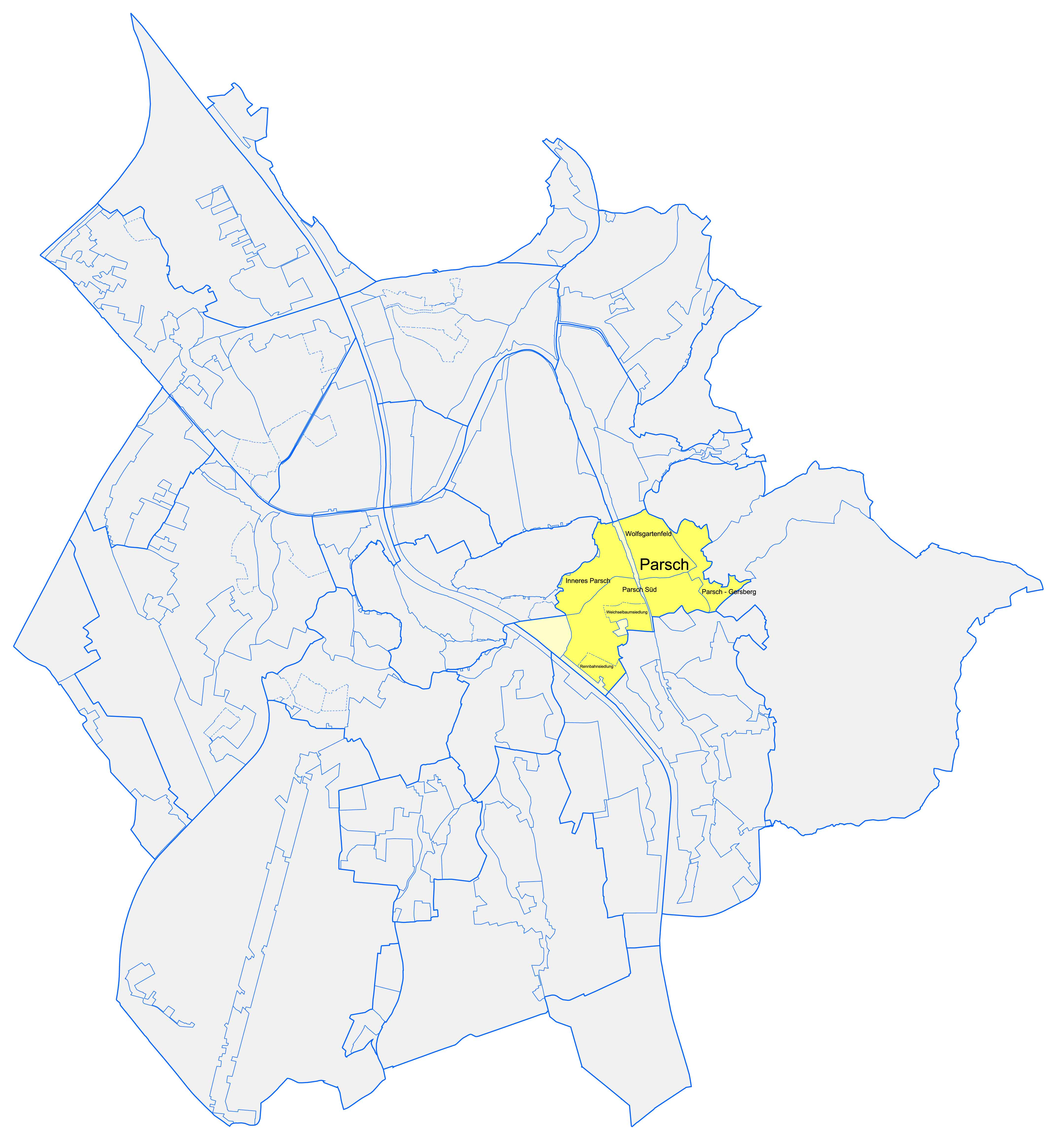 a quarter of the town of Salzburg: Parsch